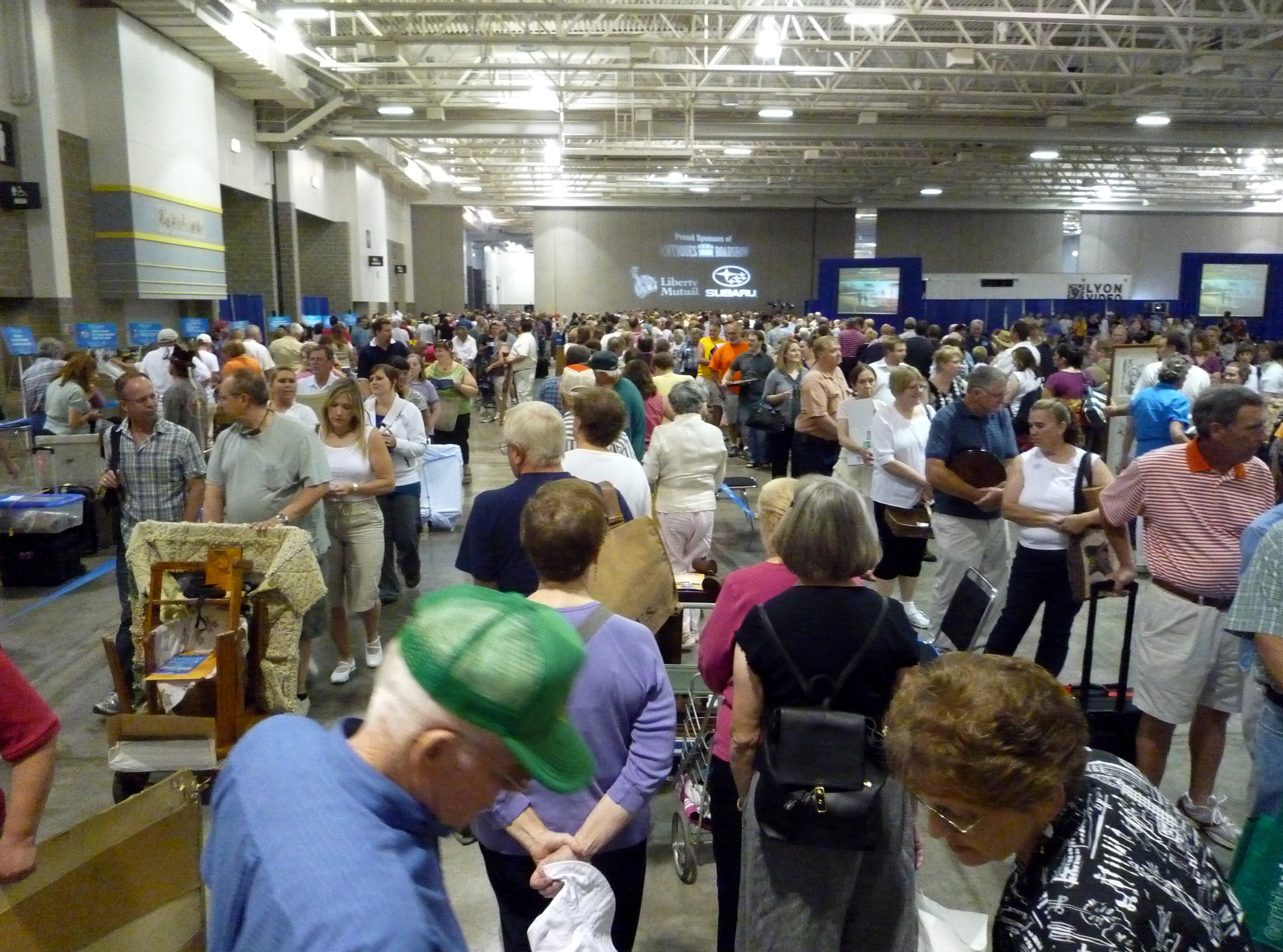 A portion of the ticketed people coming to have items appraised on a day's recording of Antiques Roadshow, Madison, Wisconsin, USA.